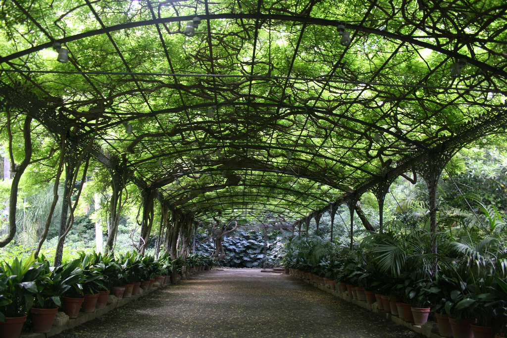 The wisteria arbor, La Concepcion Historical-Botanical Gardens, Malaga, Spain.